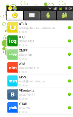 uTalk screenshot